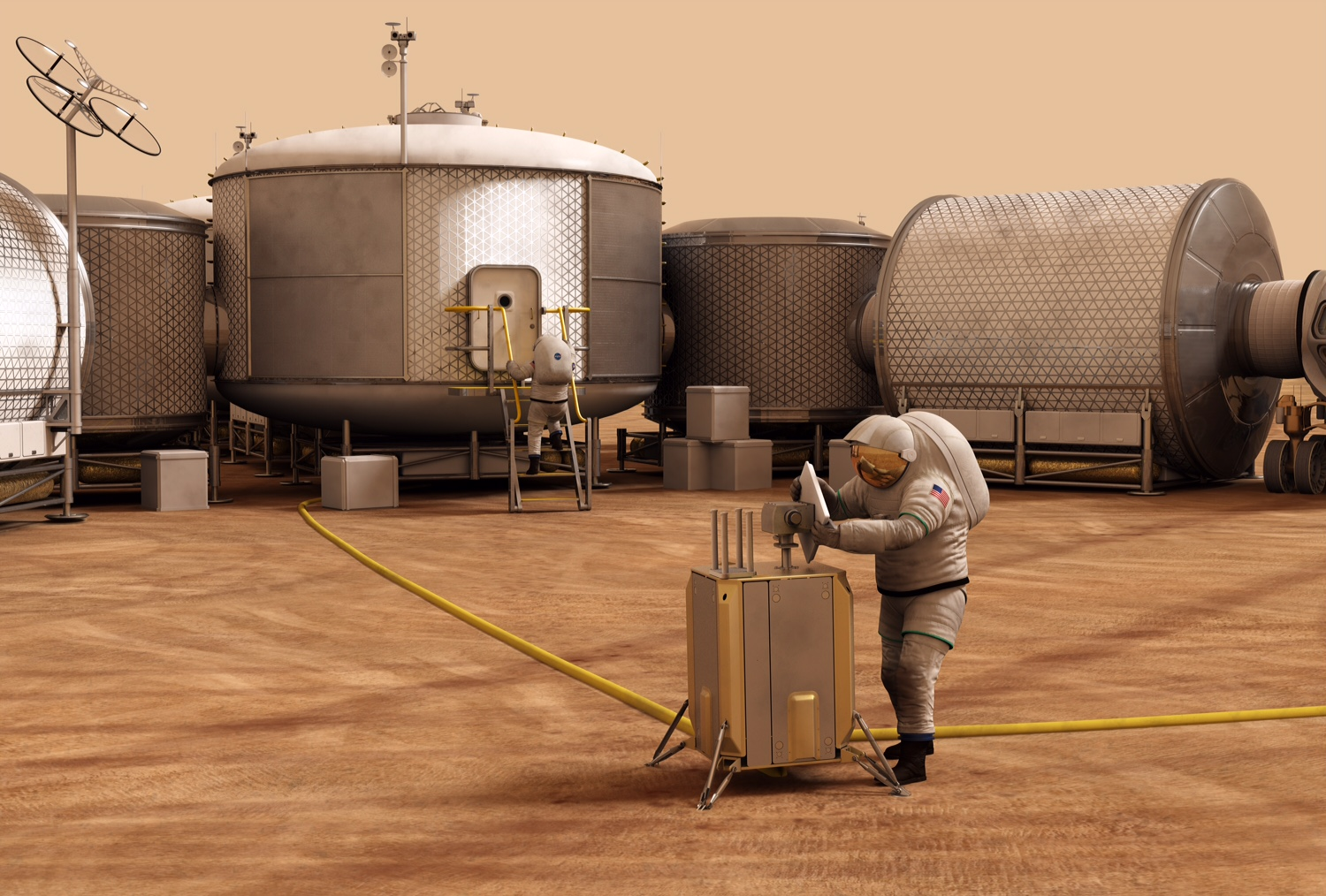 Artist's concept of Martian habitat Mars has air, but not the kind that people can breathe. Even on the warmest days, the temperature is too cold for people to live comfortably. When astronauts go to Mars, they will always need to be in spacesuits or inside buildings to live.